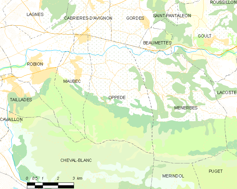 Map of French municipality Oppède